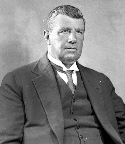 Montague Alfred Noble (28 January 1873 – 22 June 1940) ; in 1932